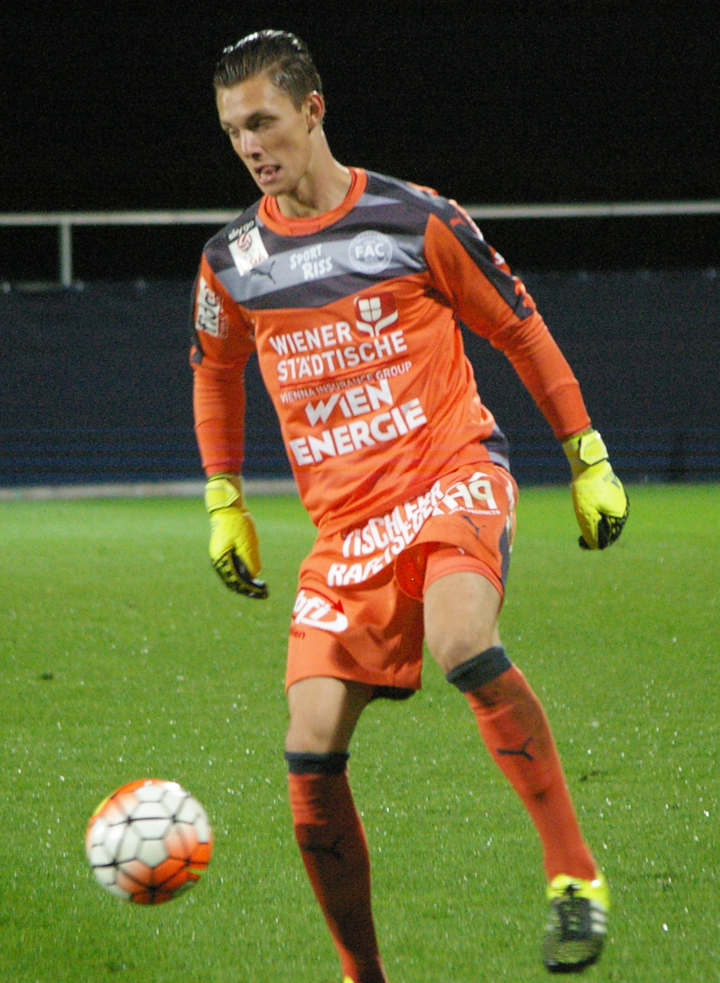 league match Austria 2nd league